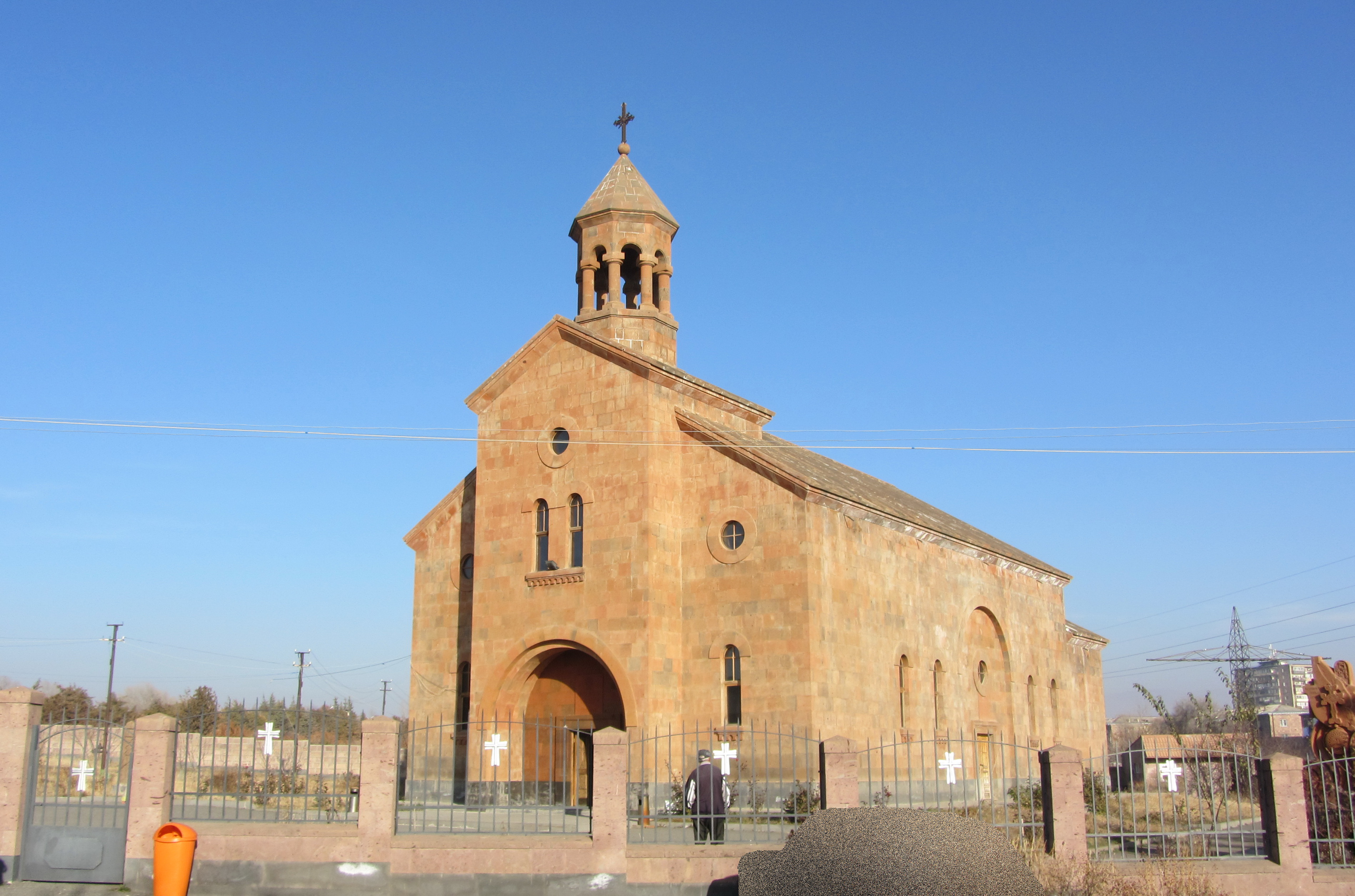 Surb Amenaprkich (Holy Savior) Church, Charentsavan, Armenia